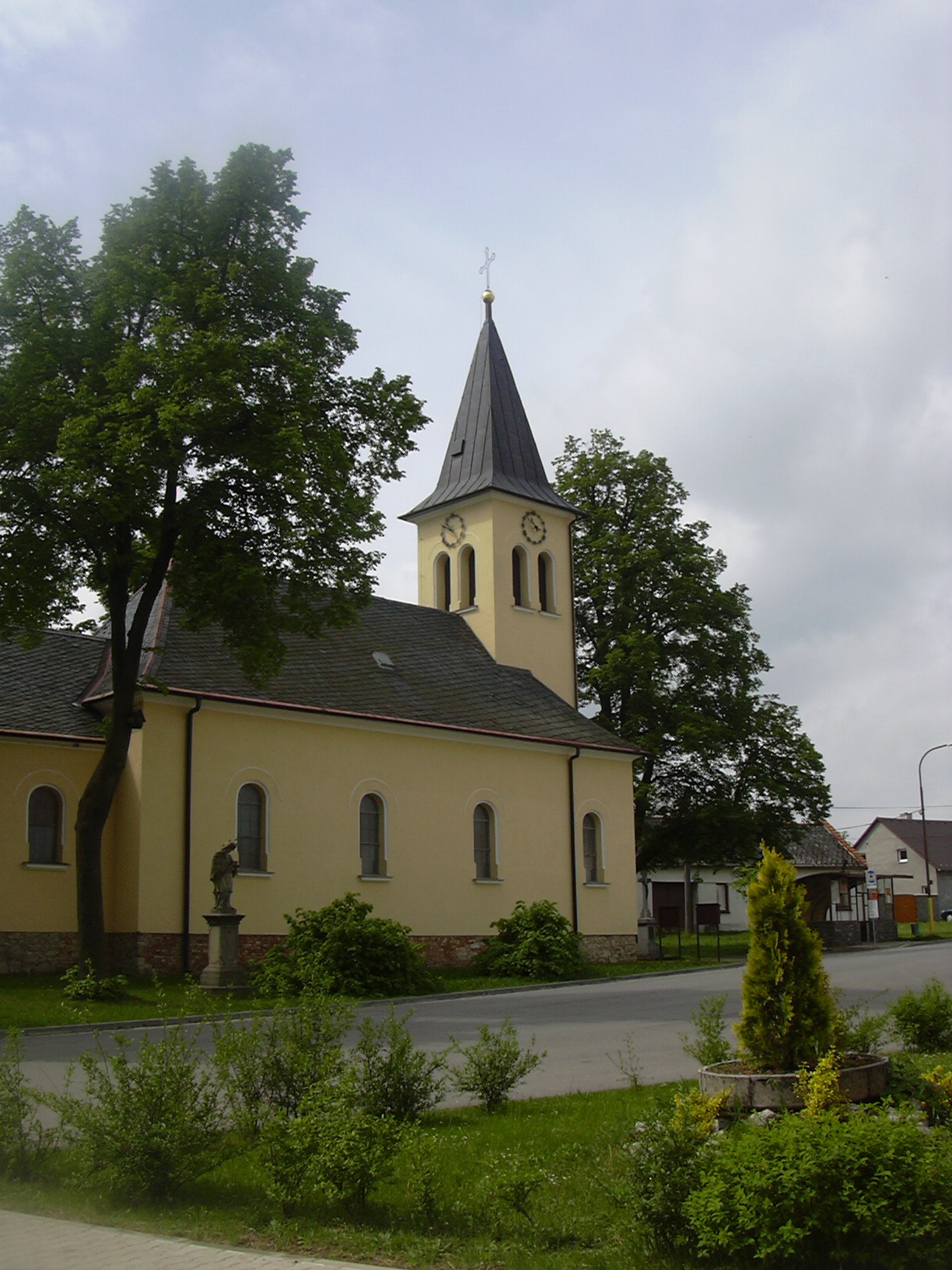 Church of Saint Giles in Studnice, Vyškov District, the Czech Republic. Česky: Kostel svatého Jiljí v obci Studnice, okres Vyškov.